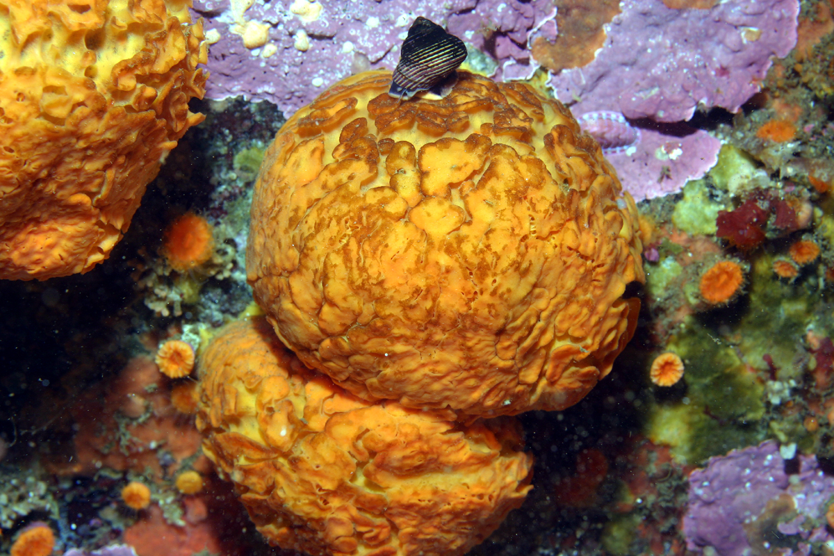 Gray puffball sponge (Craniella arb). No, it looks like an Orange Puffball Sponge Tethya aurantia.